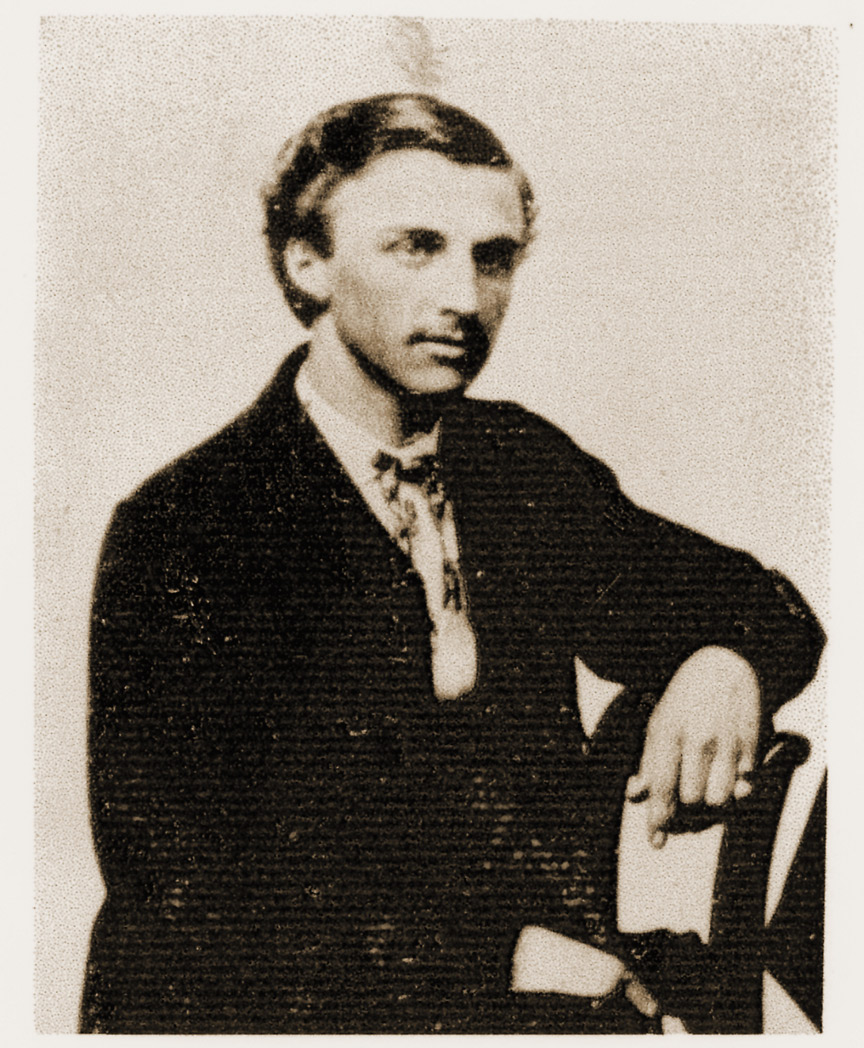 William "Billy" Claiborne was one of five outlaw Cowboys at the Gunfight at the O.K. Corral. He was unarmed and fled, only to die drunk in a gunfight with Buckskin Frank Leslie the next year.